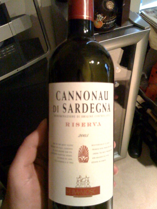 Red wine made of Grenache (Cannonau) and potentially Alicante Bouschet, Monica and Pascale di Cagliari from the Italian wine region of Sardinia.